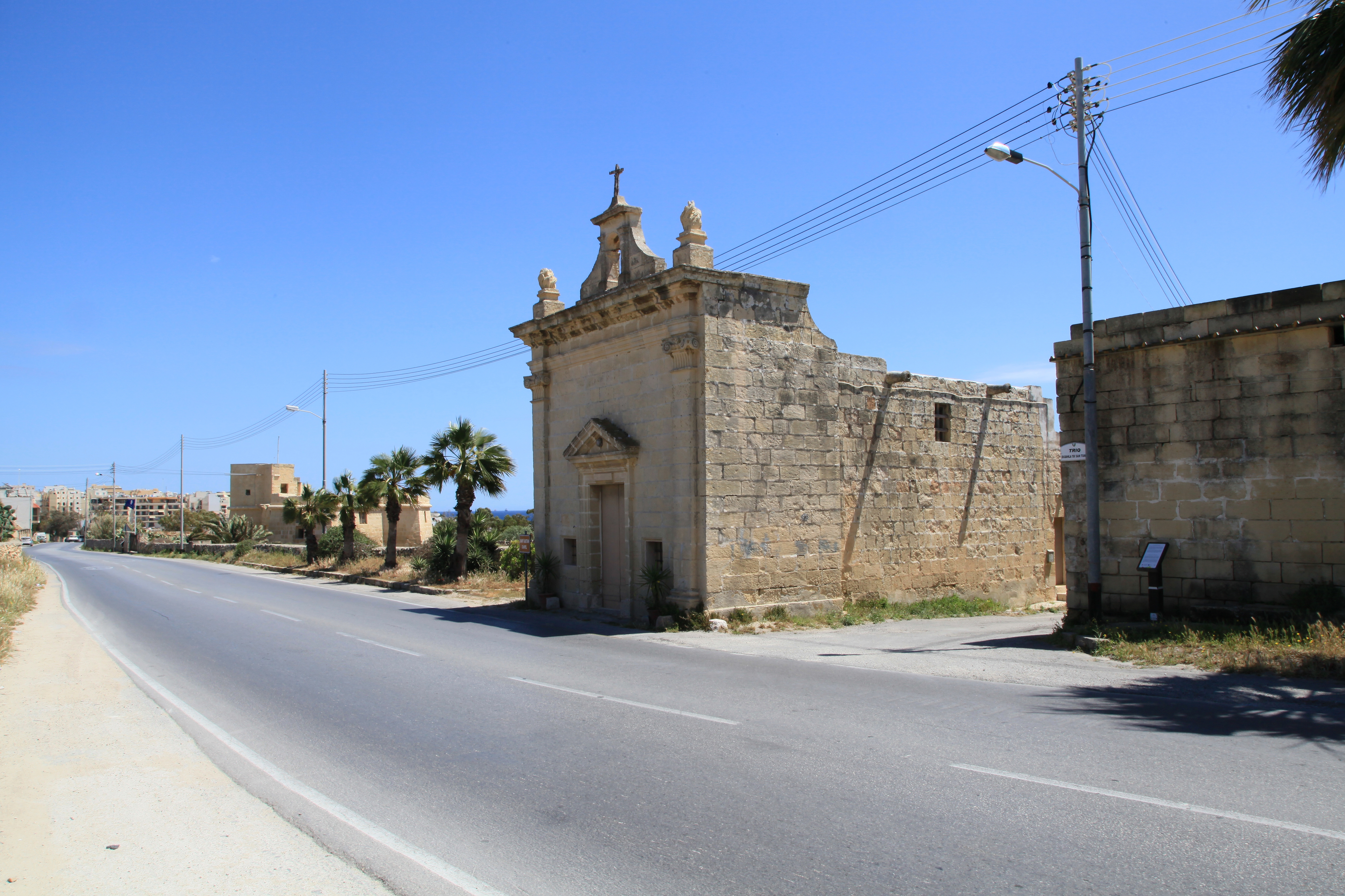 St. Cajetan Church and Mamo Tower at Triq id-Dahla ta' San Tumas in Marsaskala, Malta